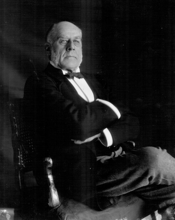 Henry Charles Brougham, 3rd Baron Brougham and Vaux (1836-1927), photographed 22 Nov 1906